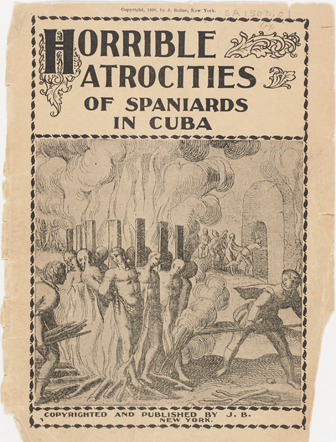 An historical and true account of the cruel massacre and slaughter of 20,000,000 of people in the West Indies by the Spaniards: Horrible atrocities of Spaniards in Cuba Creator/Contributor Casas, Bartolomé de las, 1484-1566, creator Place Of Origin New York (State), New York Publisher J. Boller Creation Date [1898?] 1898 Extent 30 p. : ill. ; 18 cm. Language English Digital Format Books and documents Notes "Translated from the French edition, printed in 1620."; Also includes articles signed: N.M.L.; Microfilm. Cambridge, Mass. : Harvard College Library Imaging Services, 2004. 1 microfilm reel ; 35 mm. Attribution by Bishop Las Casas. Series Latin American pamphlet digital project at Harvard University; Latin American pamphlet digital project at Harvard University. 1870 Repository Widener Library, Harvard University; Master Microforms, Harvard University Record ID 990043408330203941 HOLLIS Record Permalink